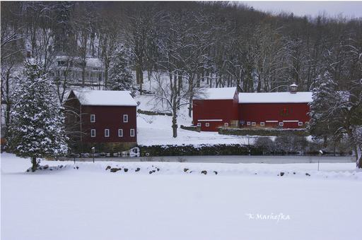 Dixons Barn Boonton Twp. NJ © Kmarhefka